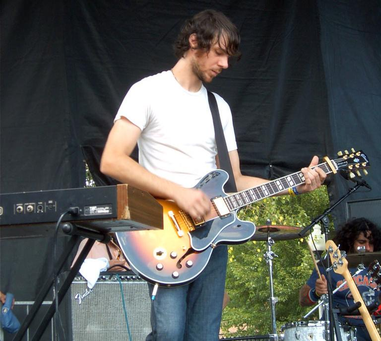 Joe Arnone playing with Band of Horses at the Pitchfork Music Fest, Union Park, Chicago, Il July 29, 2006 (Drummer is Creighton Barrett)